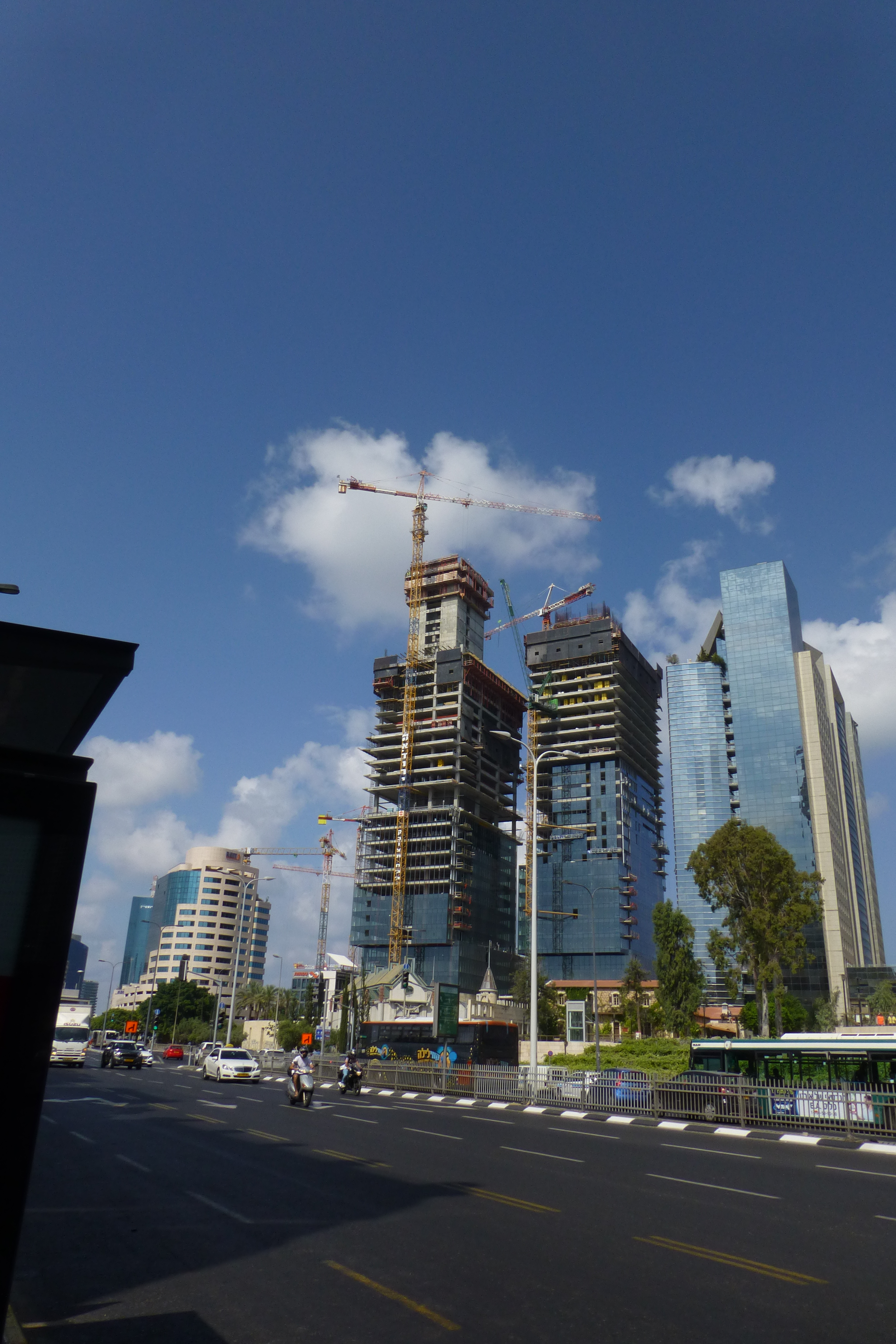 A2 (Israel)